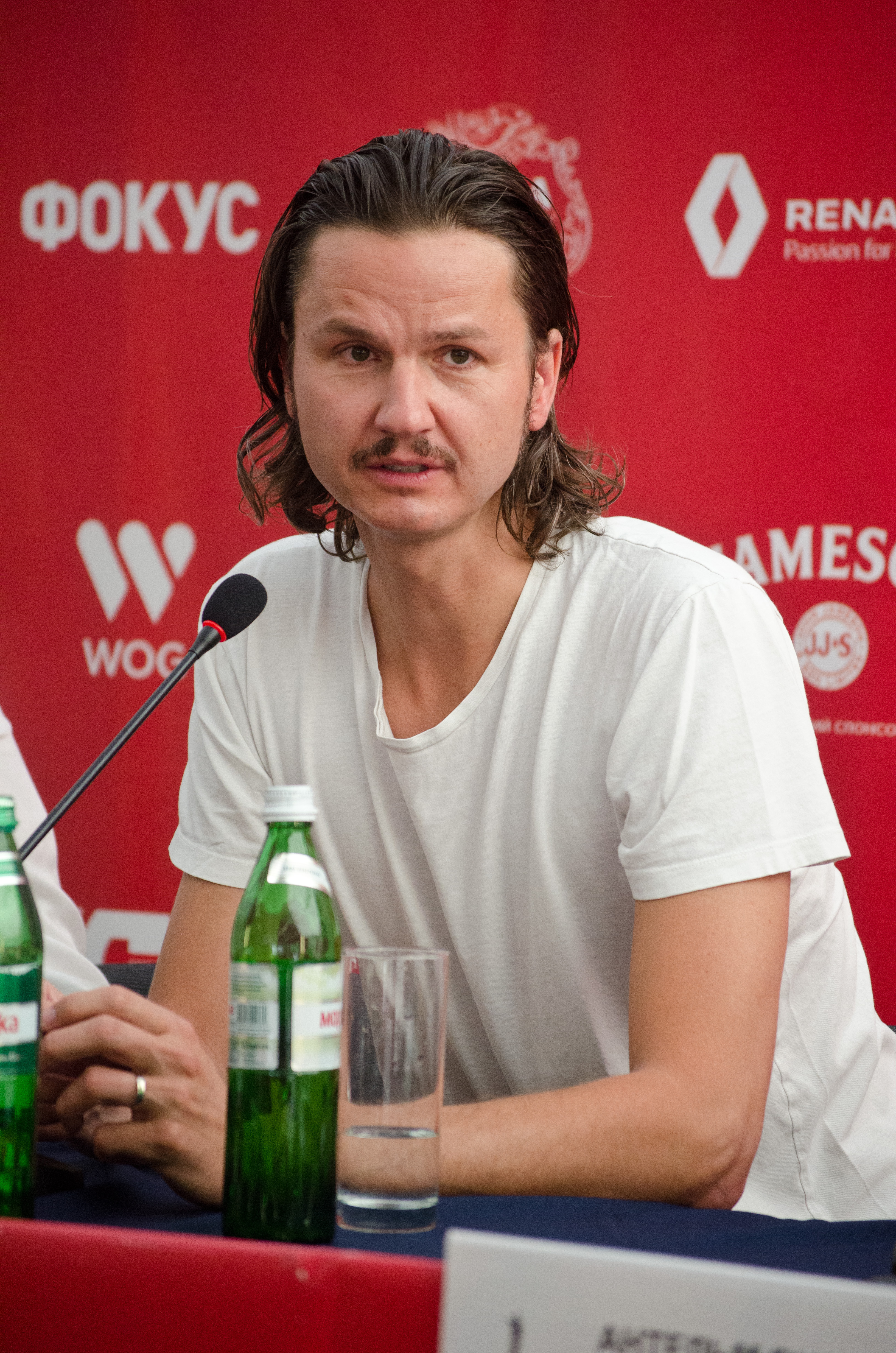 Danish film director Jeppe Rønde at the 6th Odessa International Film Festival.